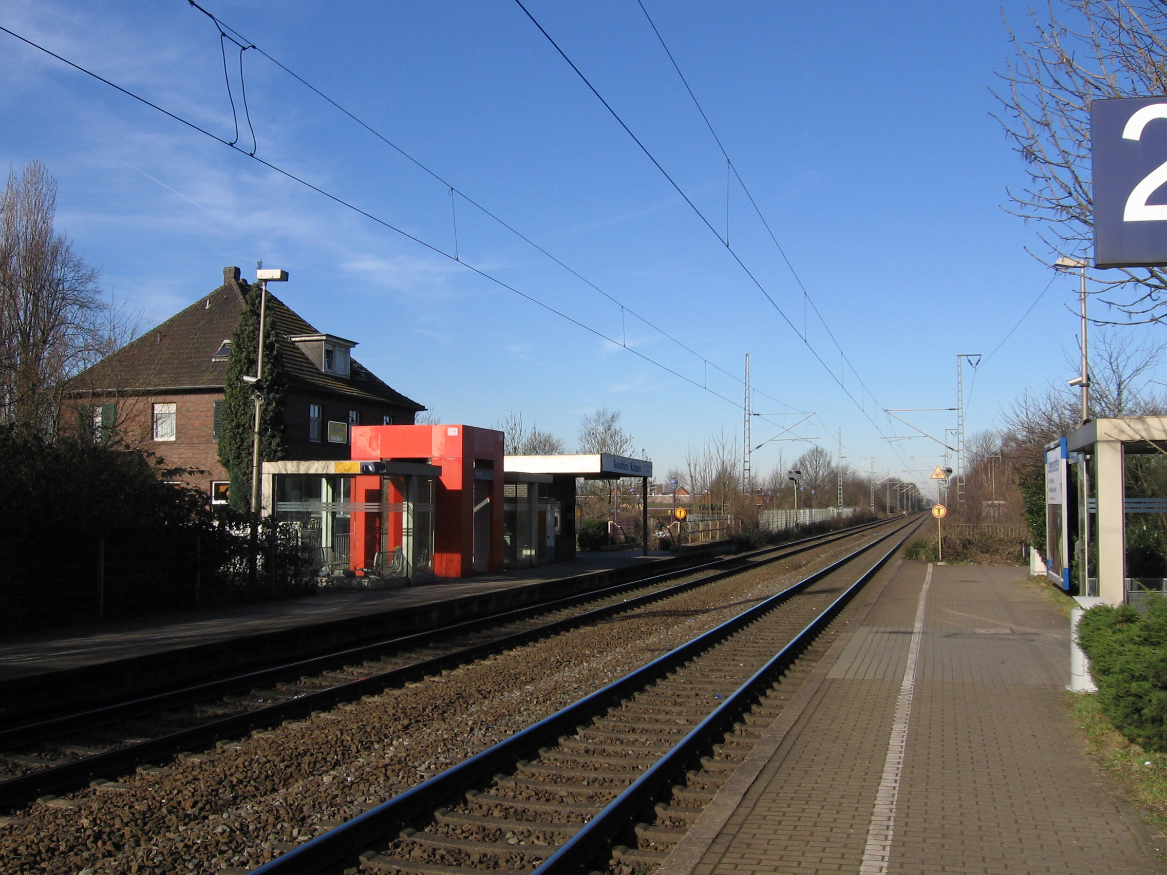 Train station of Voerde (Niederrhein)